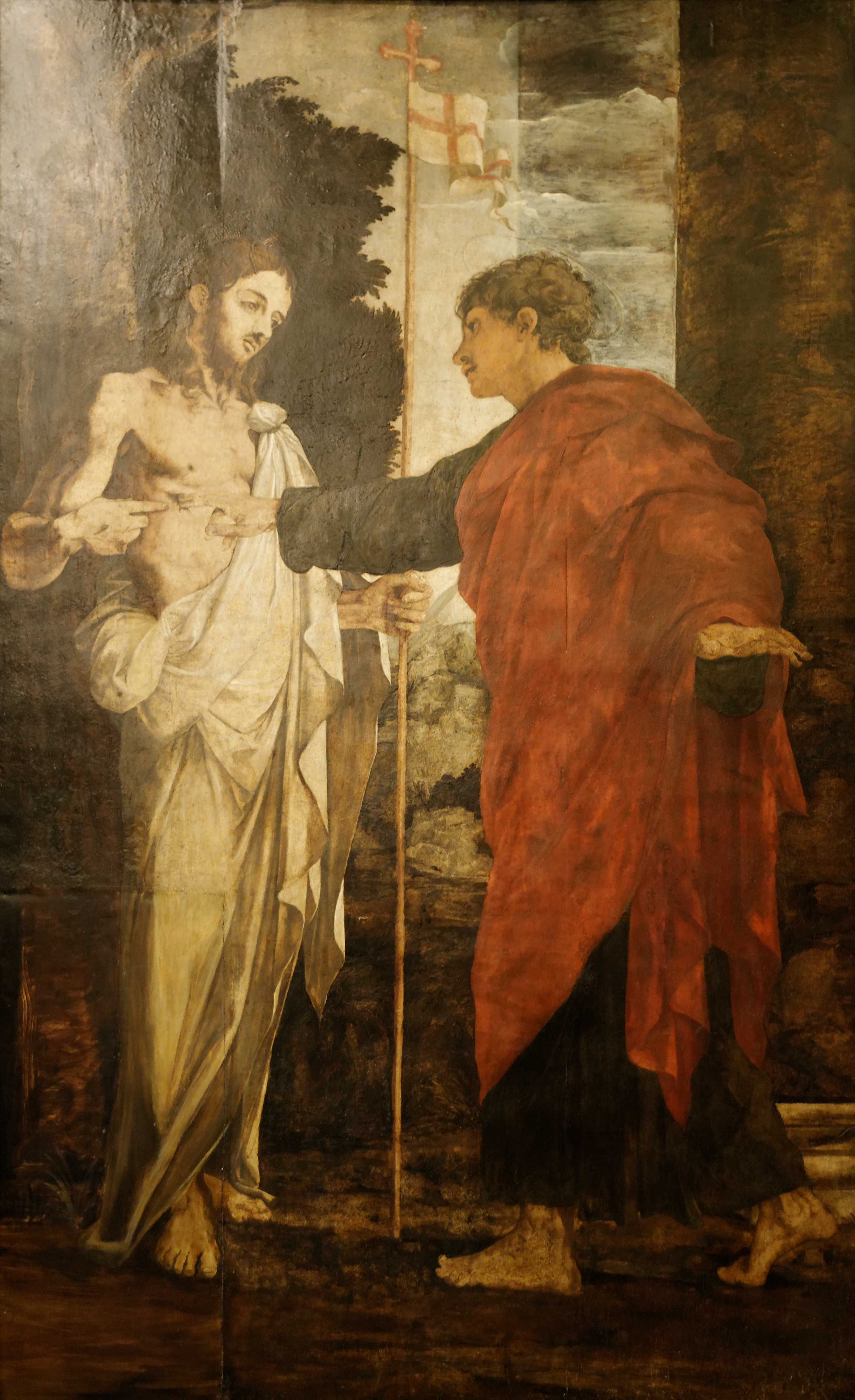 The apostle Thomas, who doubted the truth of Christ's resurection, is shown inserting two fingers in the wound Christ sustained when he was crusified. This tangible evidence dispels Thomas's doubts and, by extension those of any sceptics. Althought few of his paintings survive, Polidoro was one of the most celebrated painter of the 16th-century Italy. This altarpiece was commissioned by the Farone, an important Sicilian Family. Althought in compromised condition, its imposing composition and bold fortshortening hint at Polidoro's abilities.